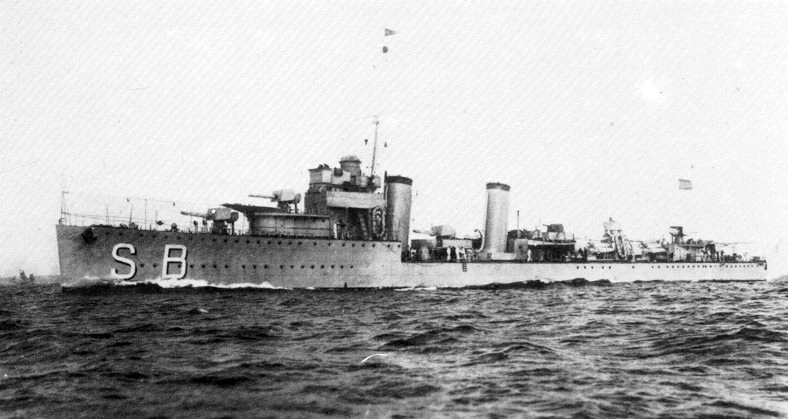 Destroyer Sanchez Barcaiztegui (SB), Churruca I class (1926)